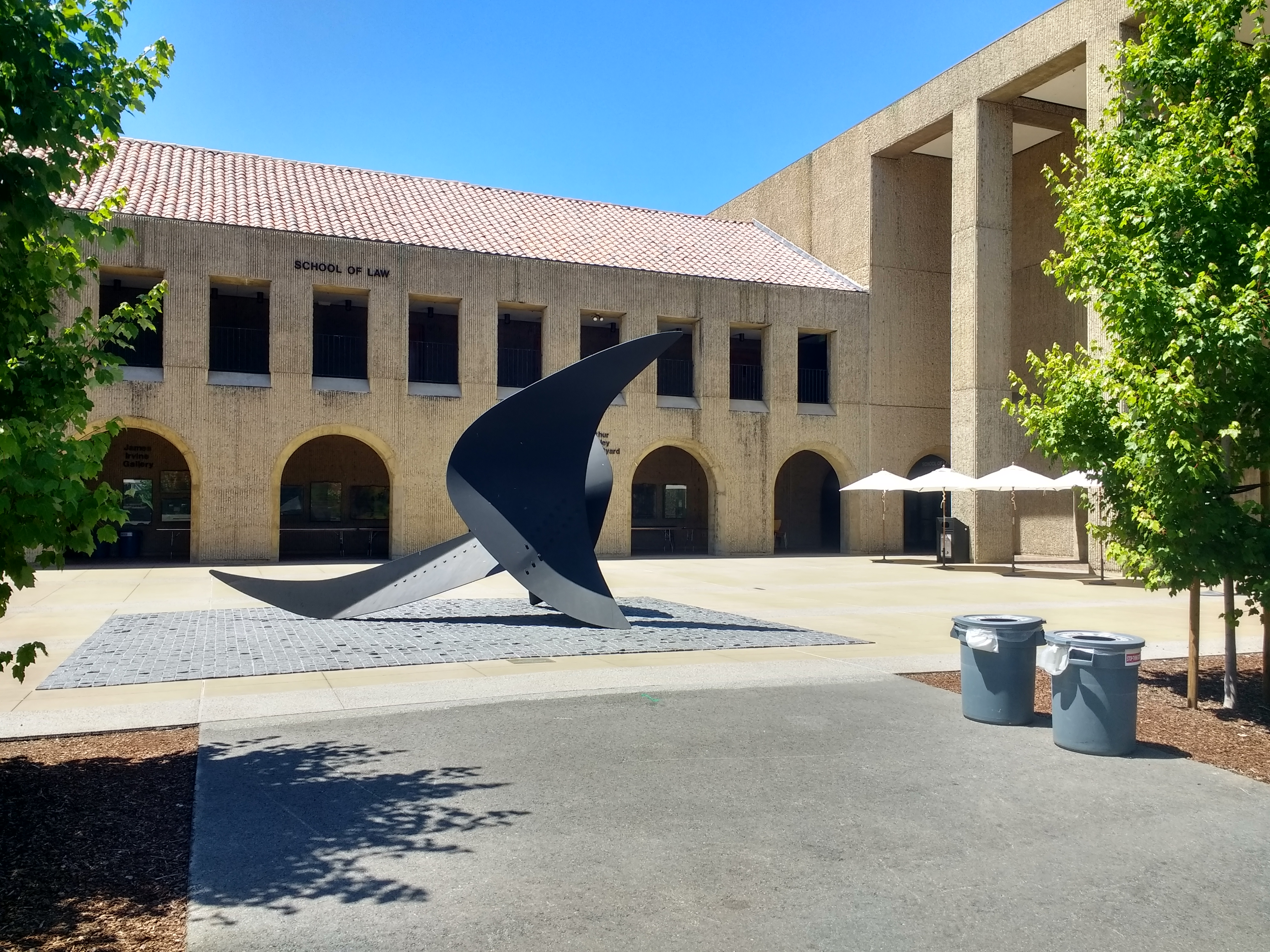 Stanford Law School in June 2019.